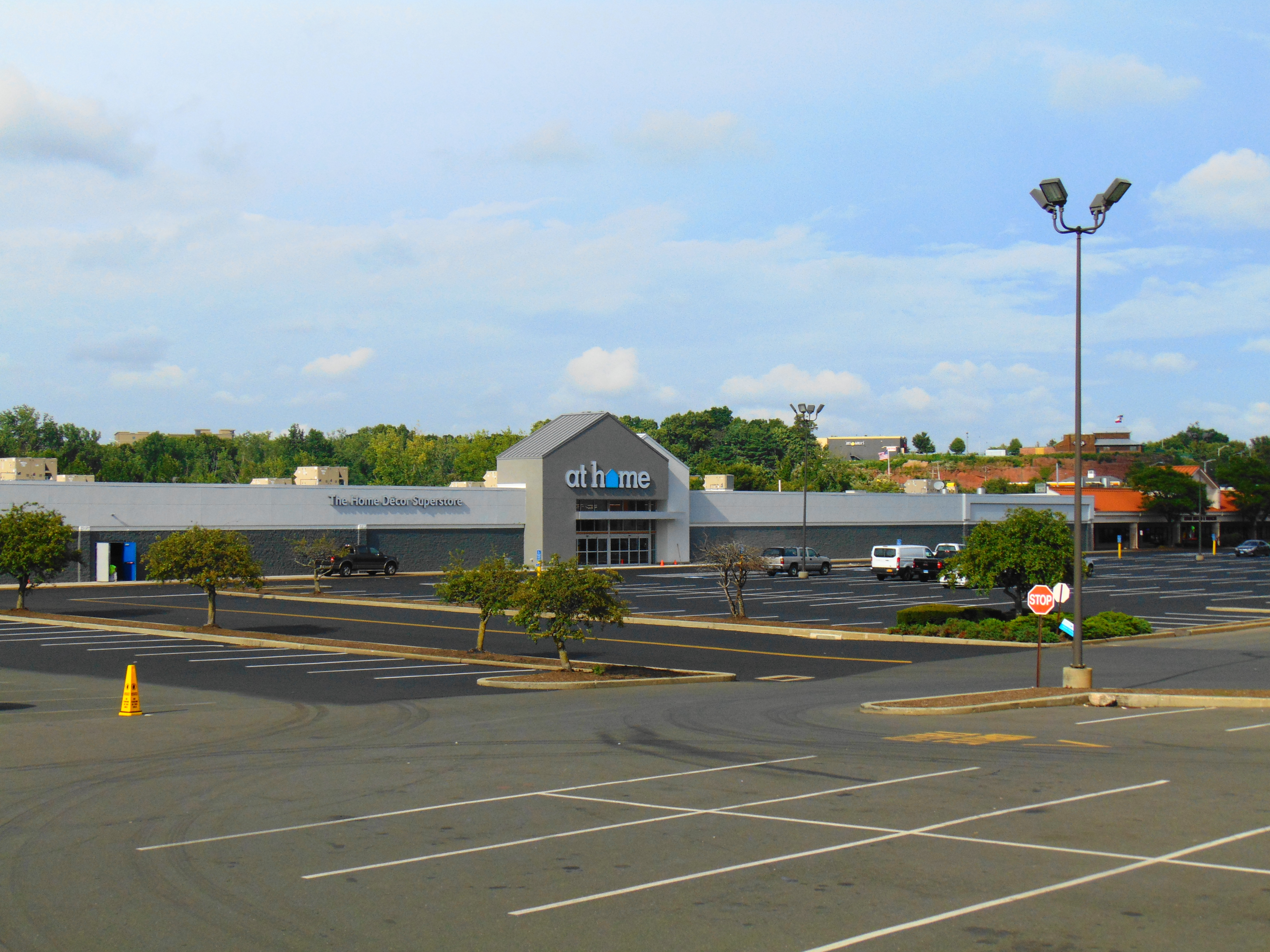 The store opened up in late-August 2018.